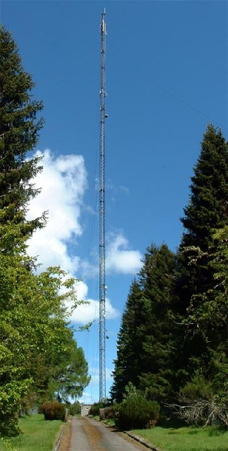 Communication Mast. Looking from the gate of the mast.